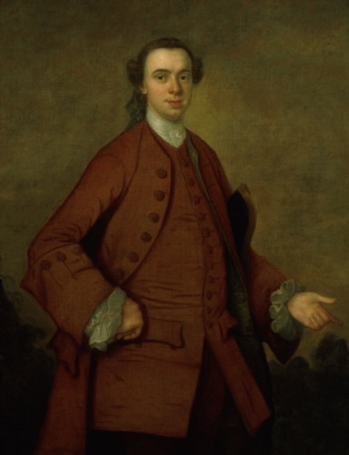 Thomas Johnson (1732–1819) was an American jurist with a distinguished political career. He was the first elected Governor of Maryland, a delegate to the Continental Congress and an Associate Justice of the United States Supreme Court.